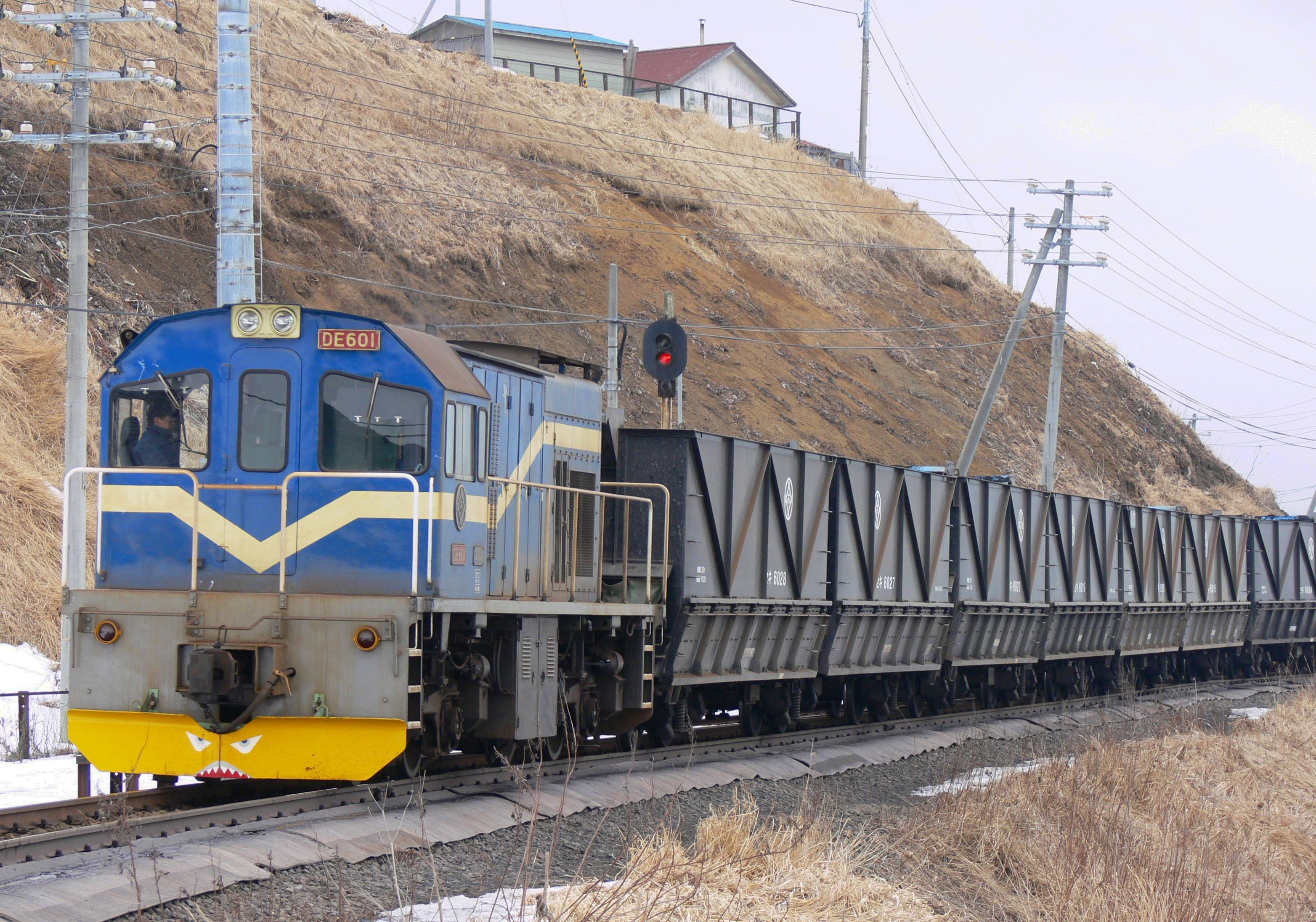 Taiheiyo Coal Services and Transportation DE601 Diesel locomotives (Japan).